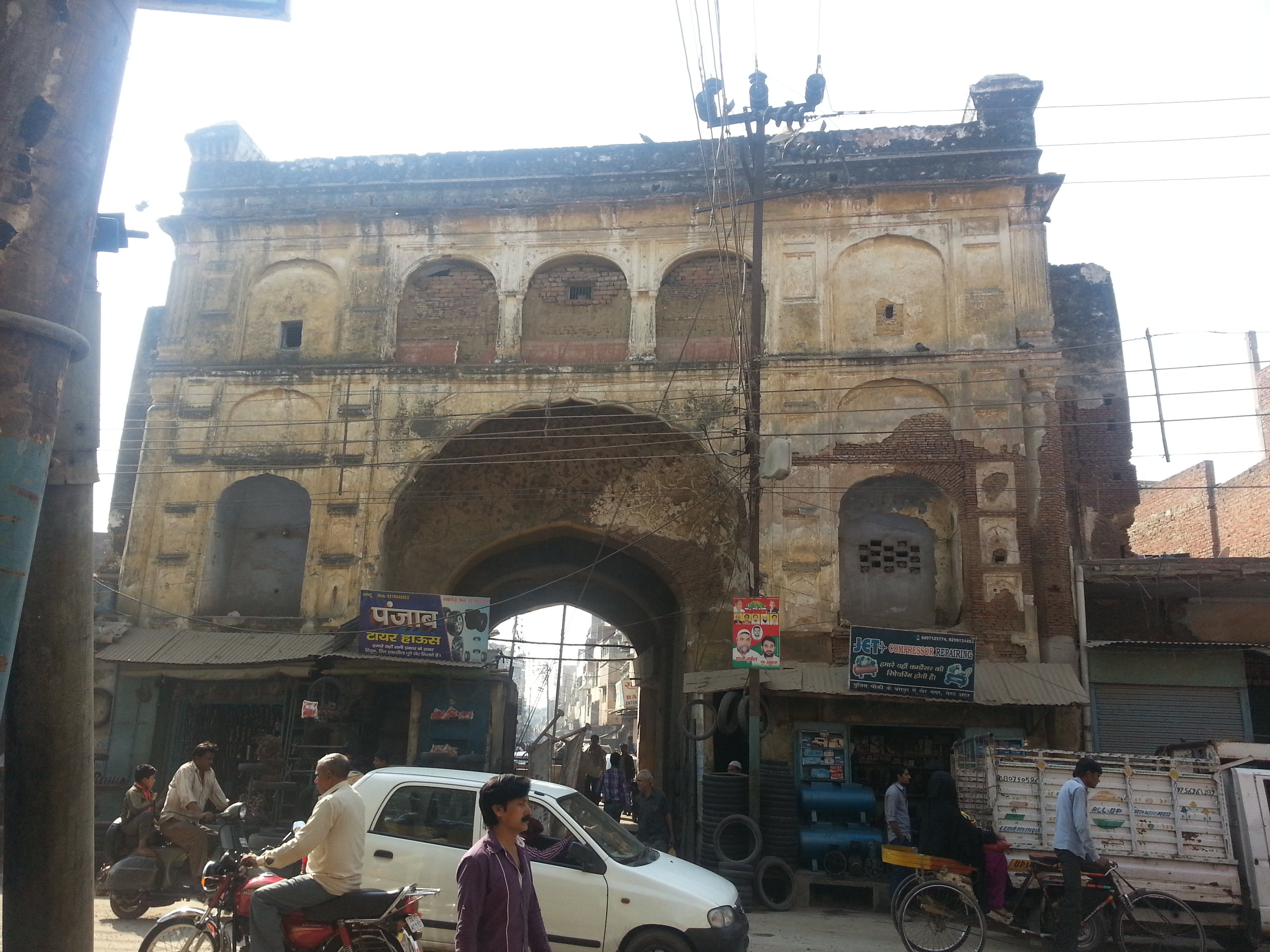 Khair nagar gate built by Nawab Khair Andesh Khan cambo in 1616 AD